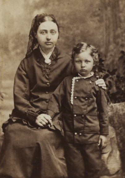 Photograph of the Danish artist Anthonie Eleonore Christensen (also Anthonore Christensen) with her son Axel Anthon from the Royal Danish Library collection